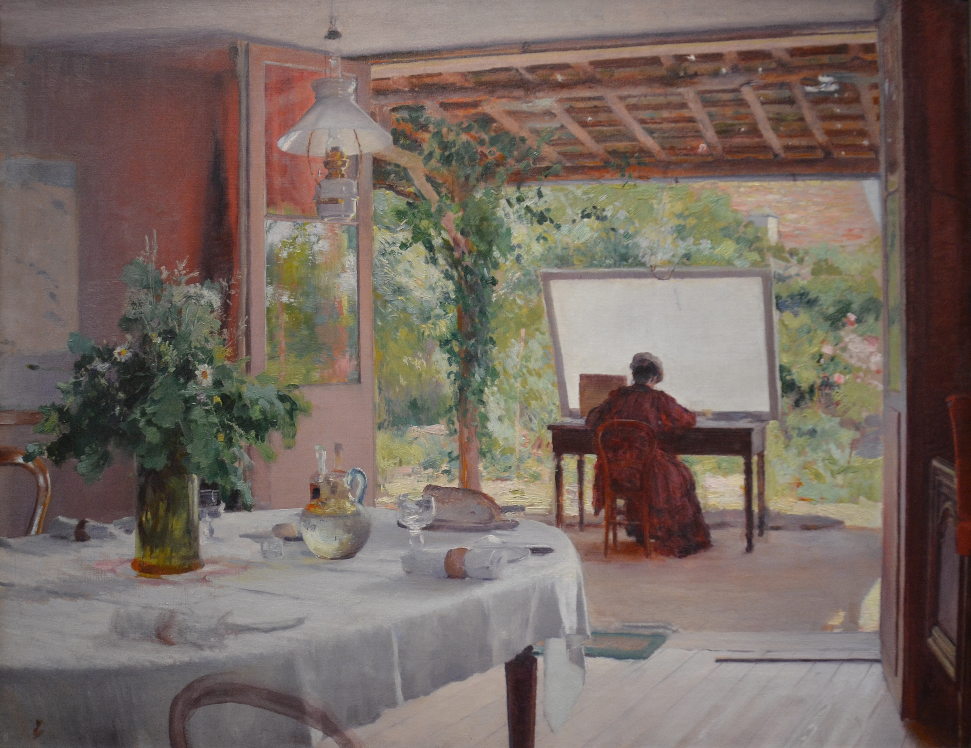 Friluftsatelje (Open air studio), by William Blair Bruce, 1885-90, Nationalmuseum, Stockholm